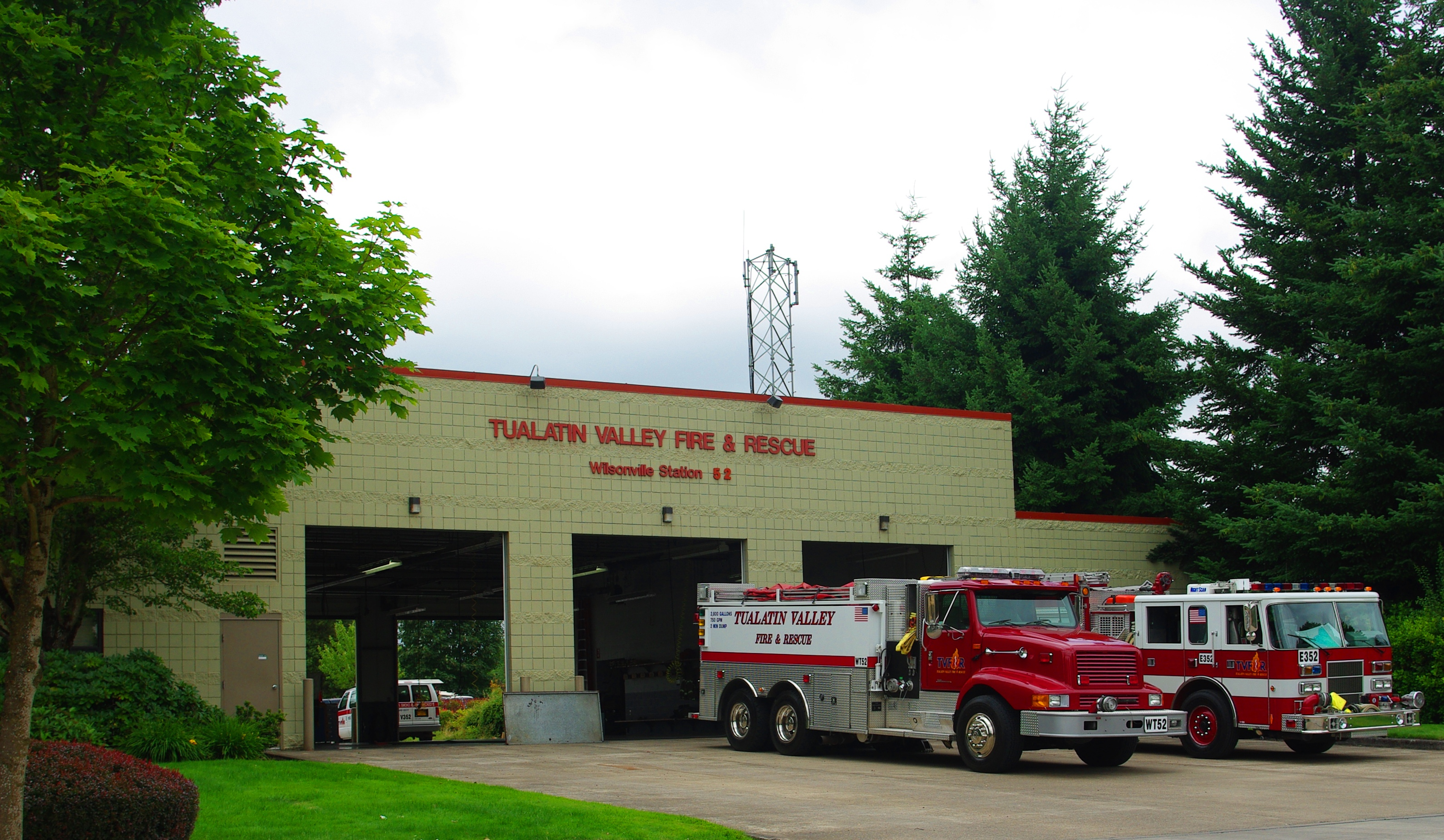 Tualatin Valley Fire & Rescue main station in Wilsonville, Oregon, USA.